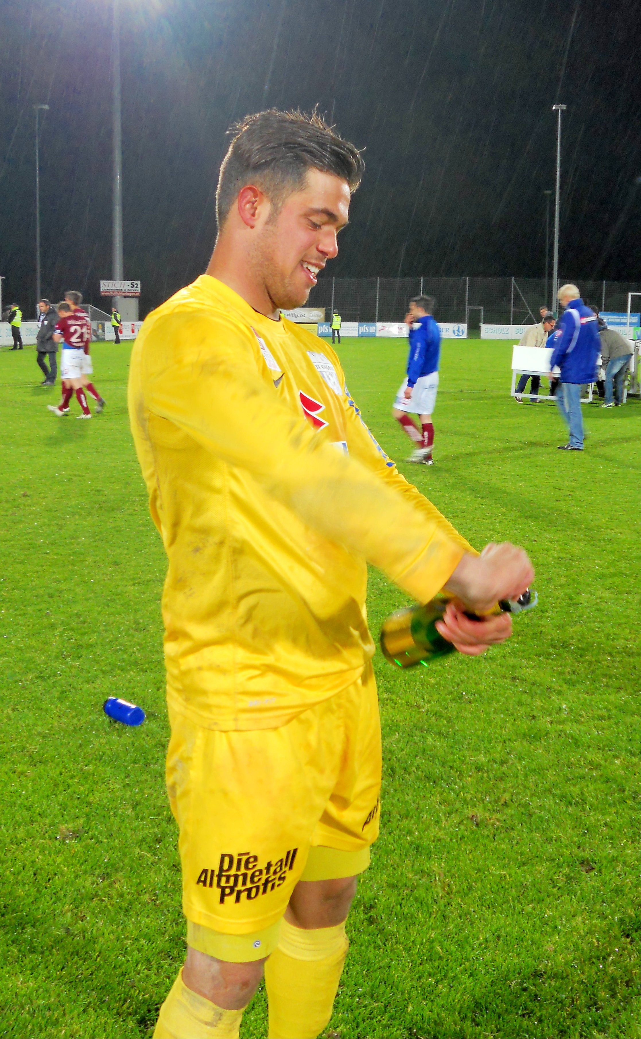 Kevin Fend, goalkeeper of SV Grödig after the "Erste Liga"-game SV Grödig vs FC Blau-Weiss Linz on 24 May 2013 at the Untersberg-Arena